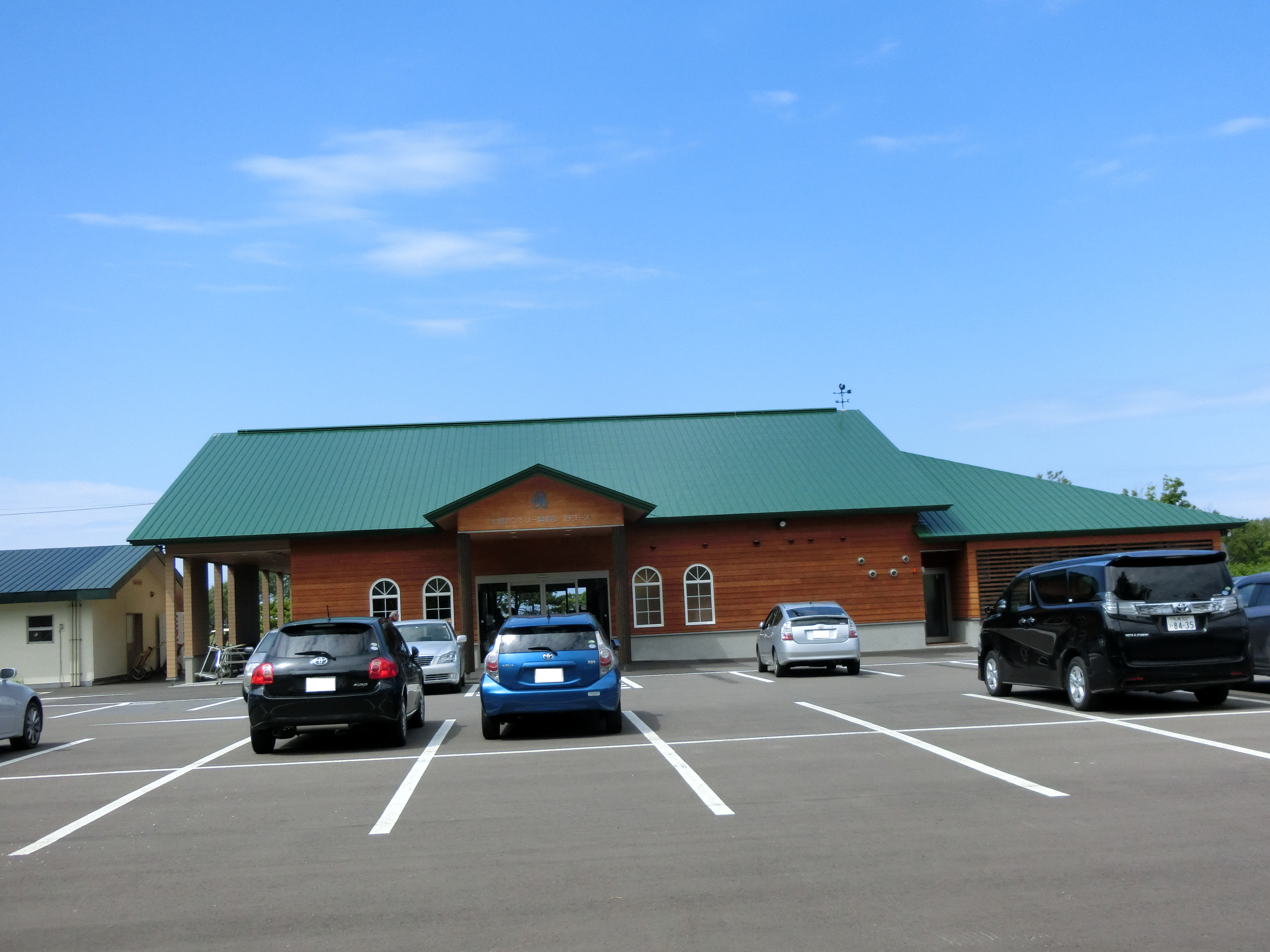 Otaru Country Club old course located in Zenibako, Otaru, Hokkaido